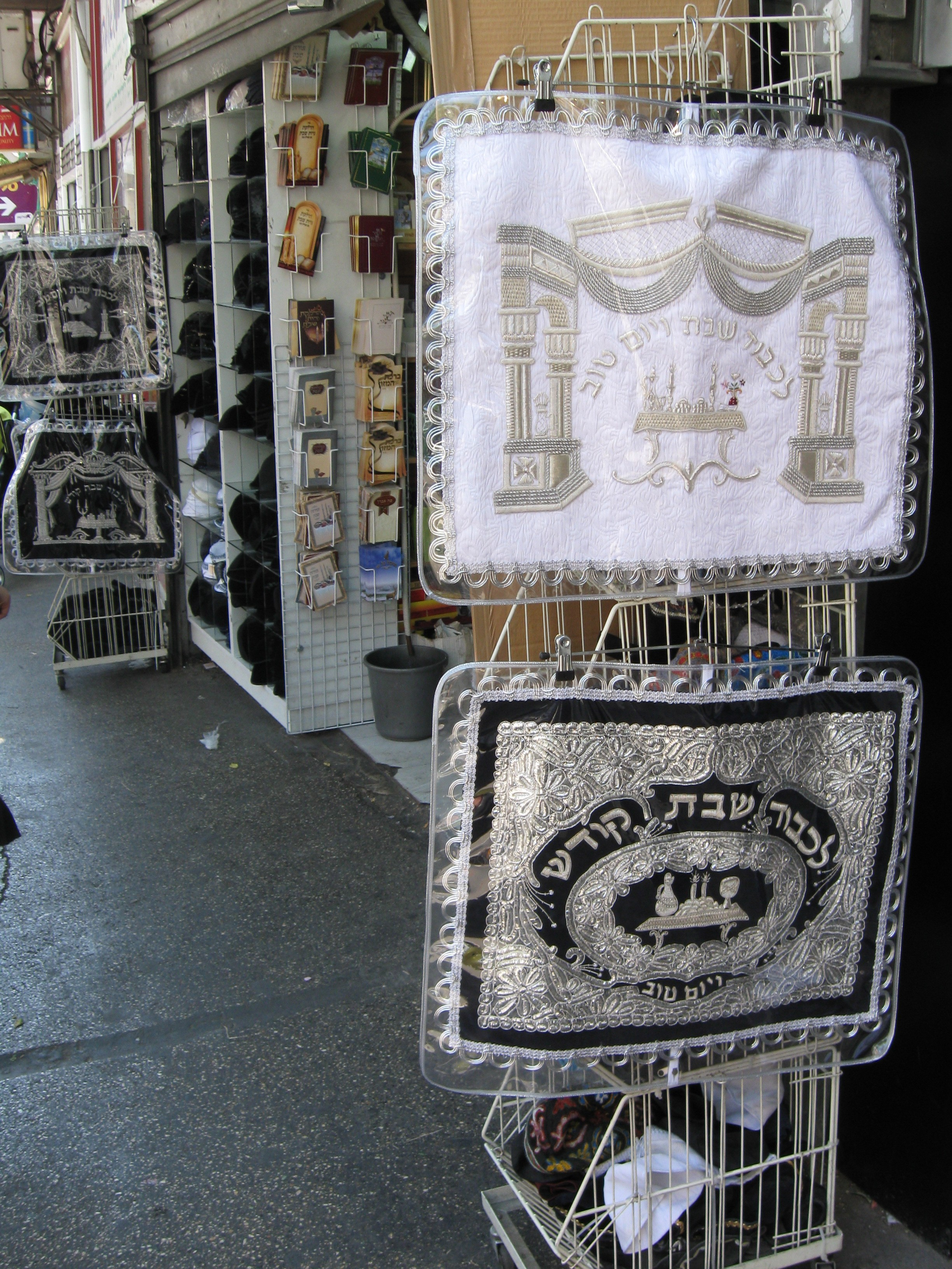 Challah covers on display outside a store in Jerusalem, Israel.